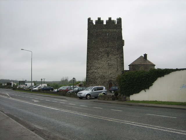 Tyrrellspass Castle in Ireland. Built in the 15th century. It is now a restaurant.